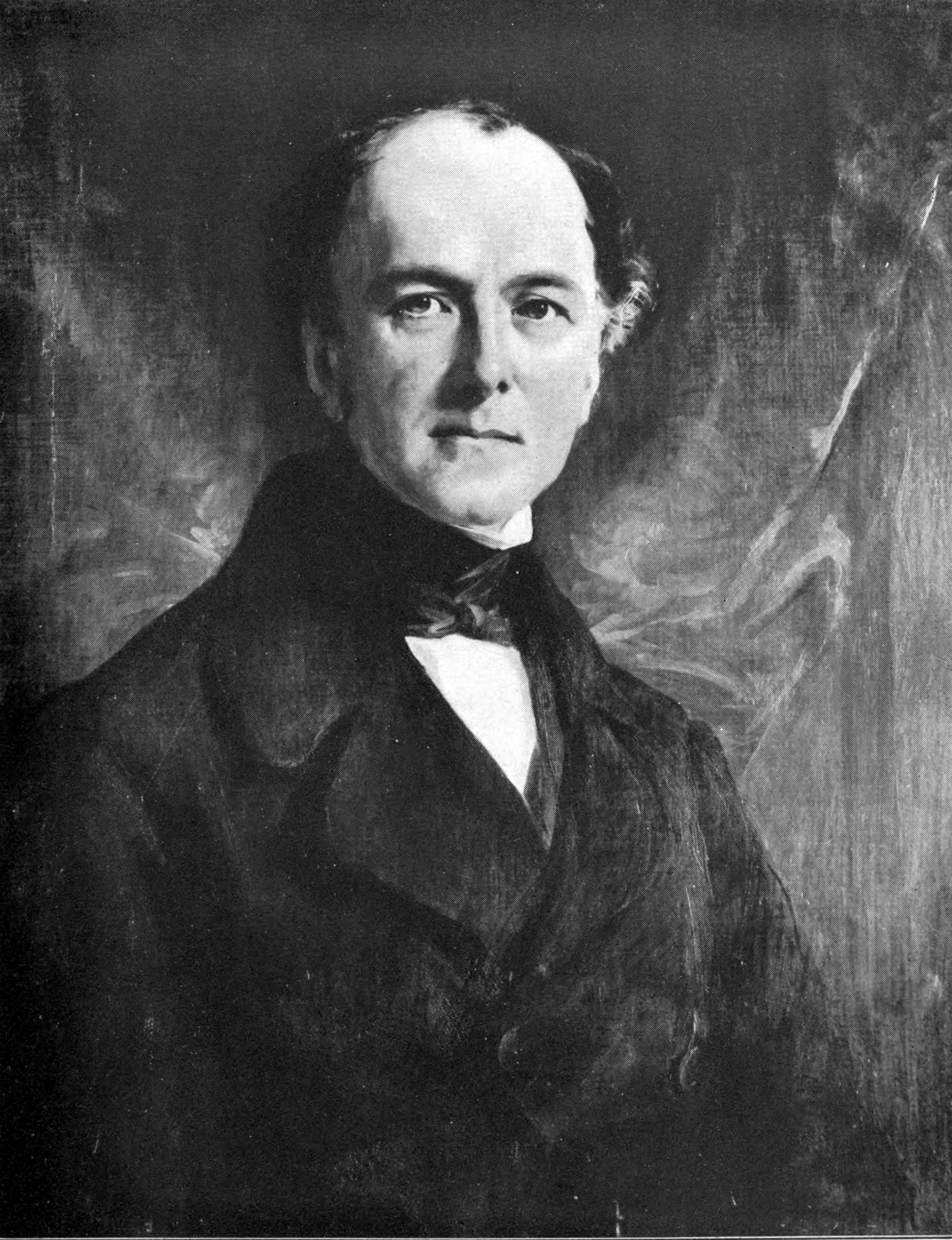 Portrait painting of United States bibliophile and founder of the Lenox Library (now part of the New York Public Library) James Lenox.